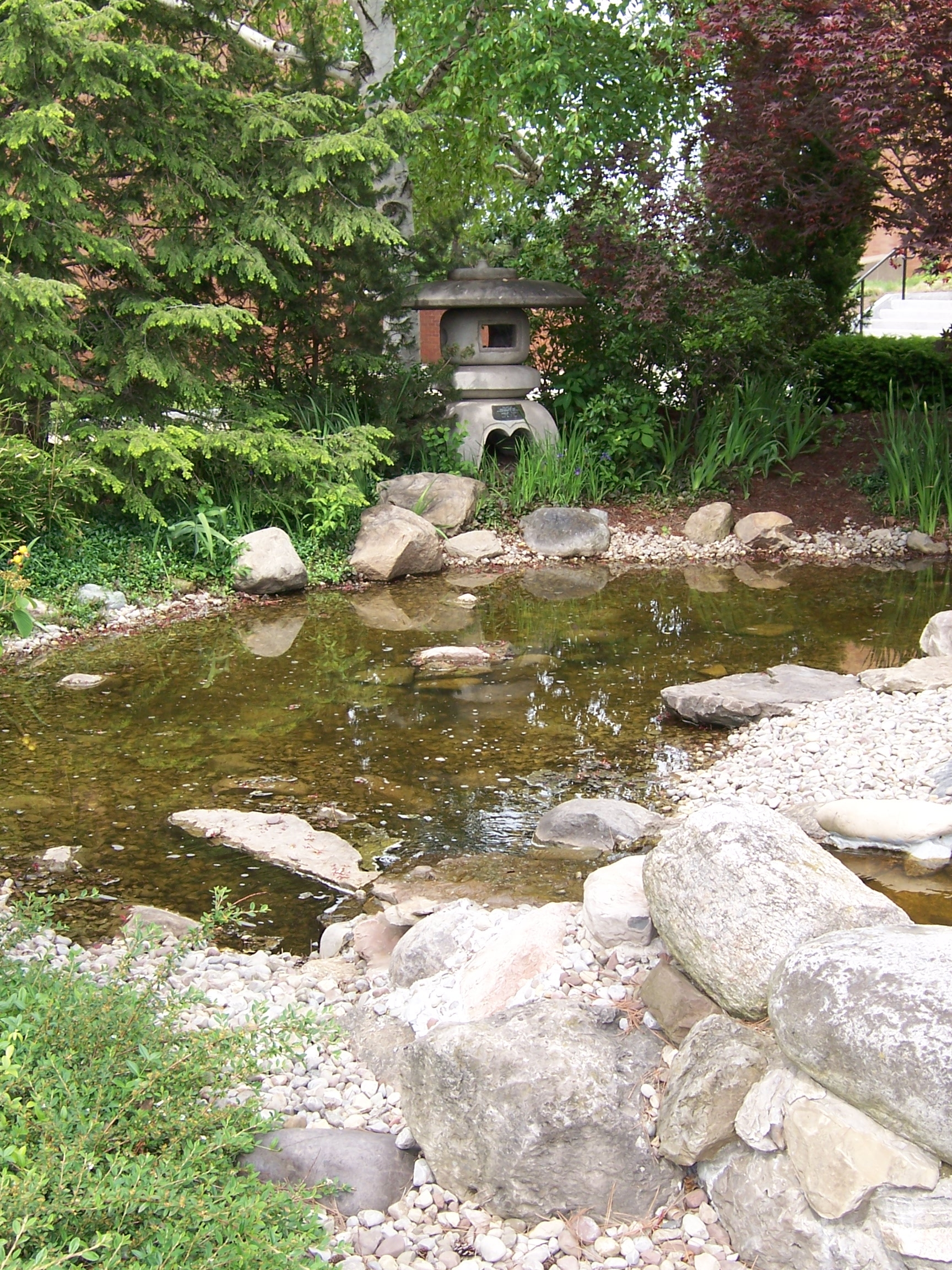 The Tojo Memorial Garden, created in 1975 on the RIT campus. The Garden was created in memory of RIT photography student Yasuji Tojo. The granite lantern featured in the photograph was donated by Tojo's parents. The Garden is intended as a "living memorial to eternal youth." The area where the Garden is located was named the "Eastman Kodak Quad" in 2003. The Frank E. Gannett building is in the background on the left; the George Eastman building is on the right.